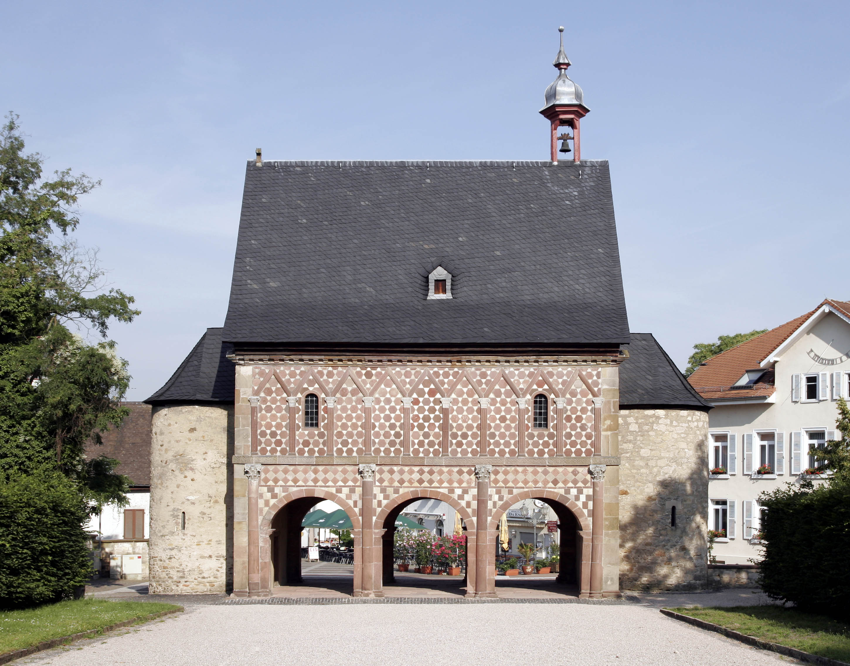 The Königshalle (Kingshall) of Lorsch Abbey